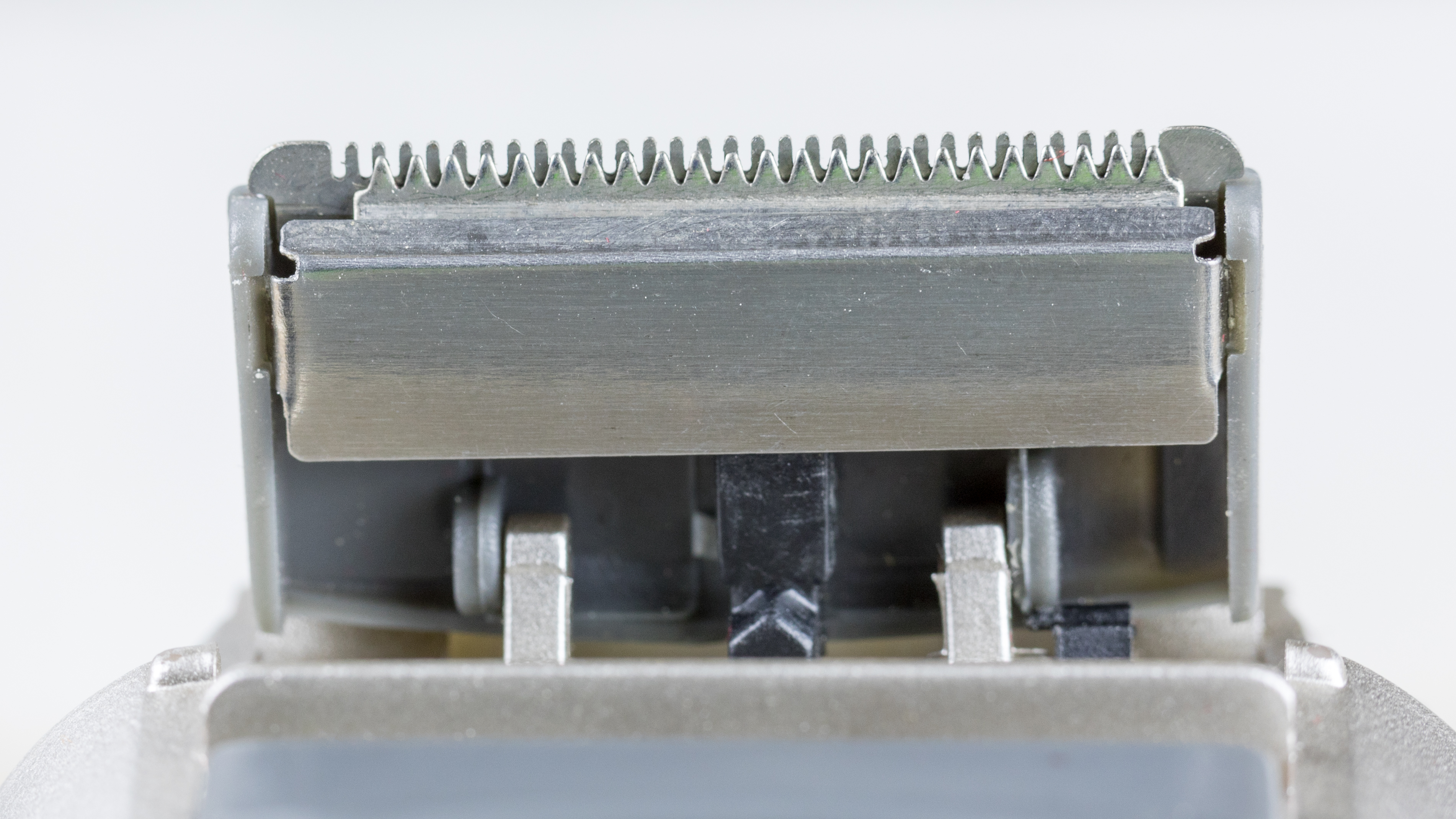 Huachang Shaver HC-6800 - Beard Trimmer